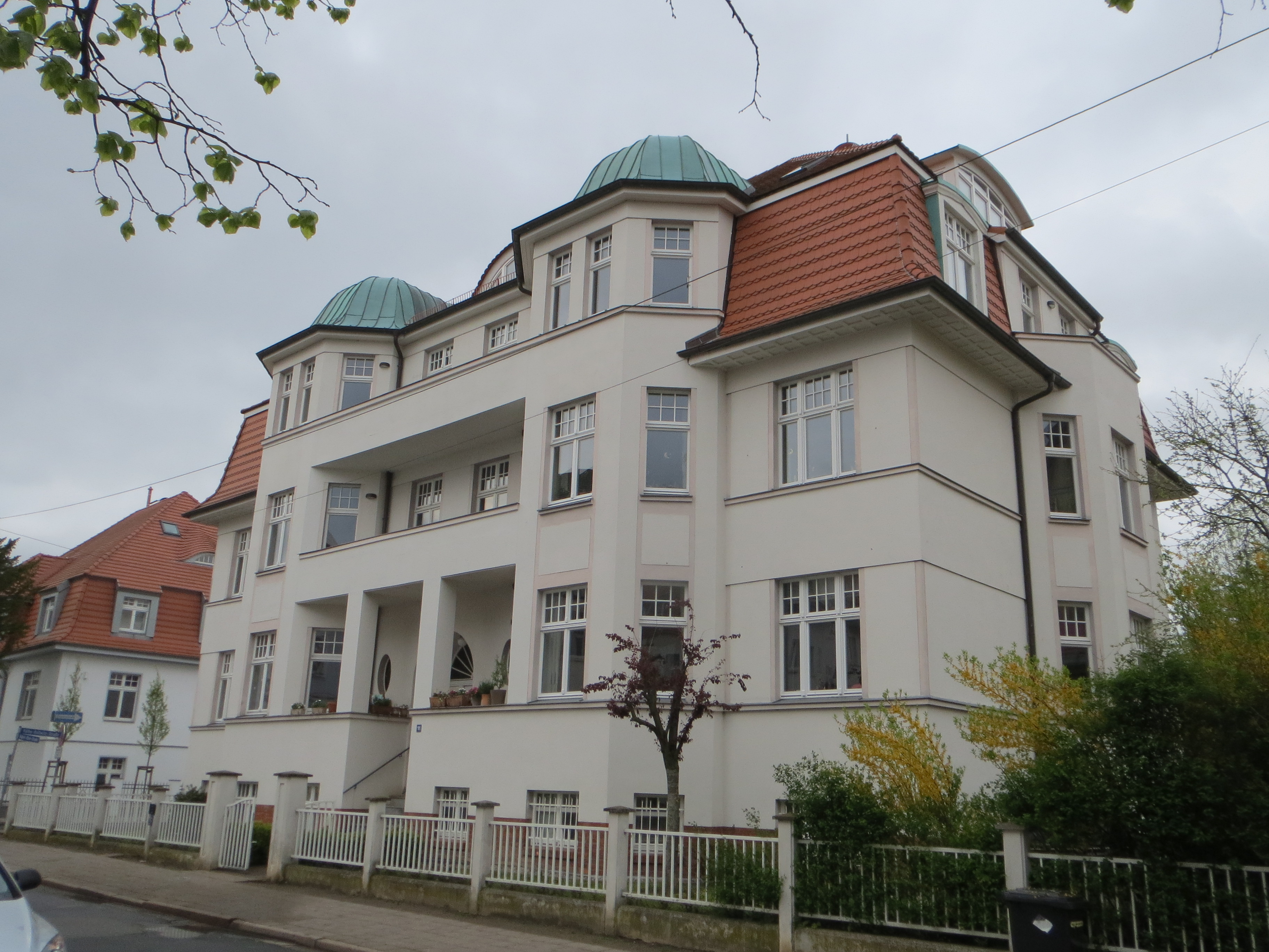 Robert-Blum-Strasse 11 in Greifswald